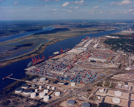 Wilmington